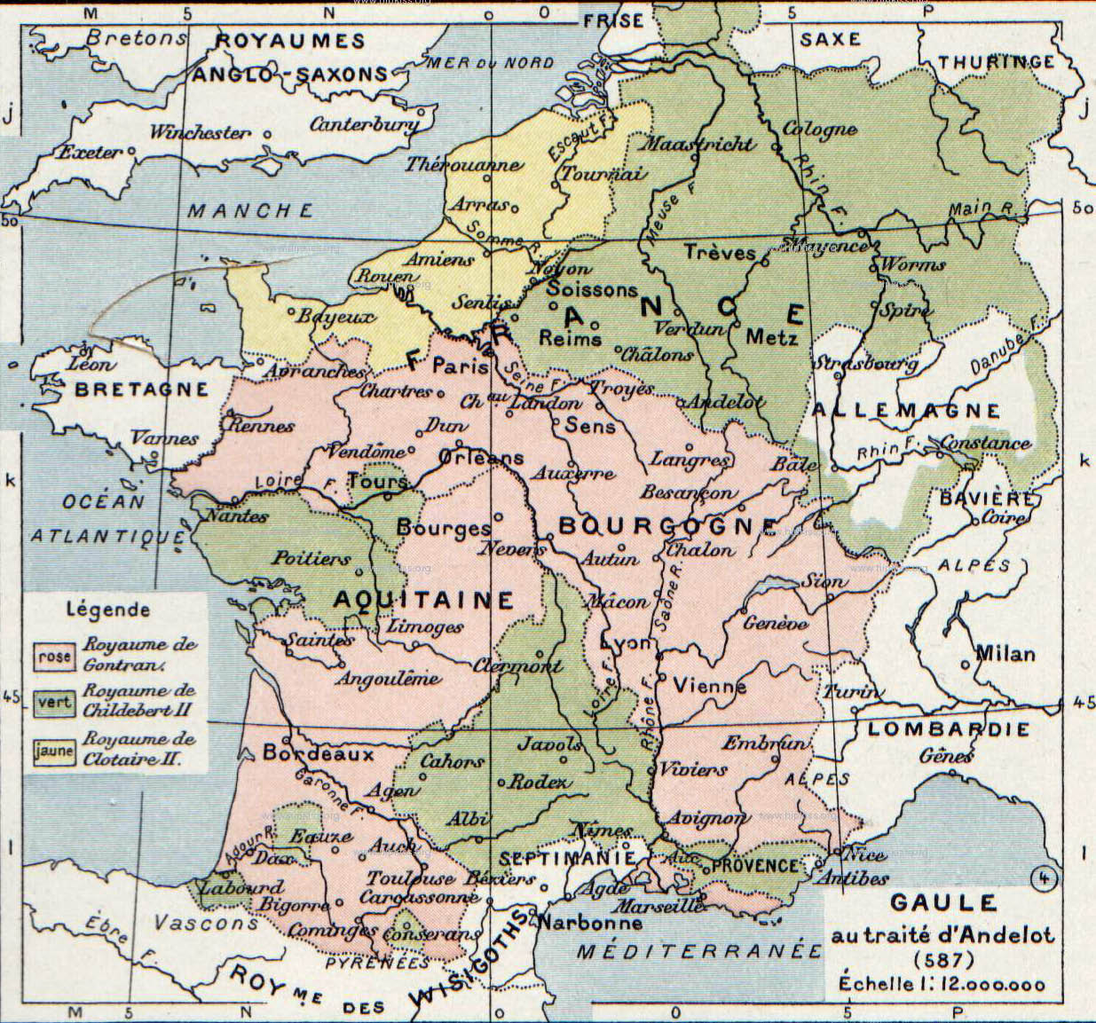 The map comes from Vidal-Lablache, Atlas général d'histoire et de géographie (1894). It shows Gaul in 587 AD.